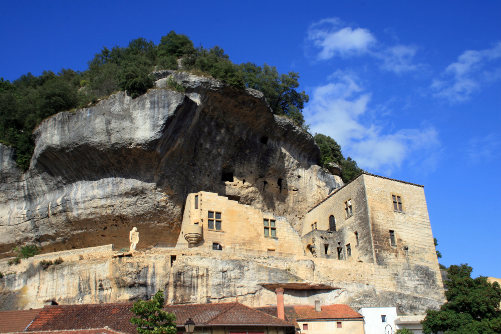 National museum of prehistory, Les Eyzies-de-Tayac-Sireuil, France